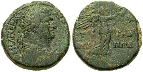 Photographed from an example in my collectiom